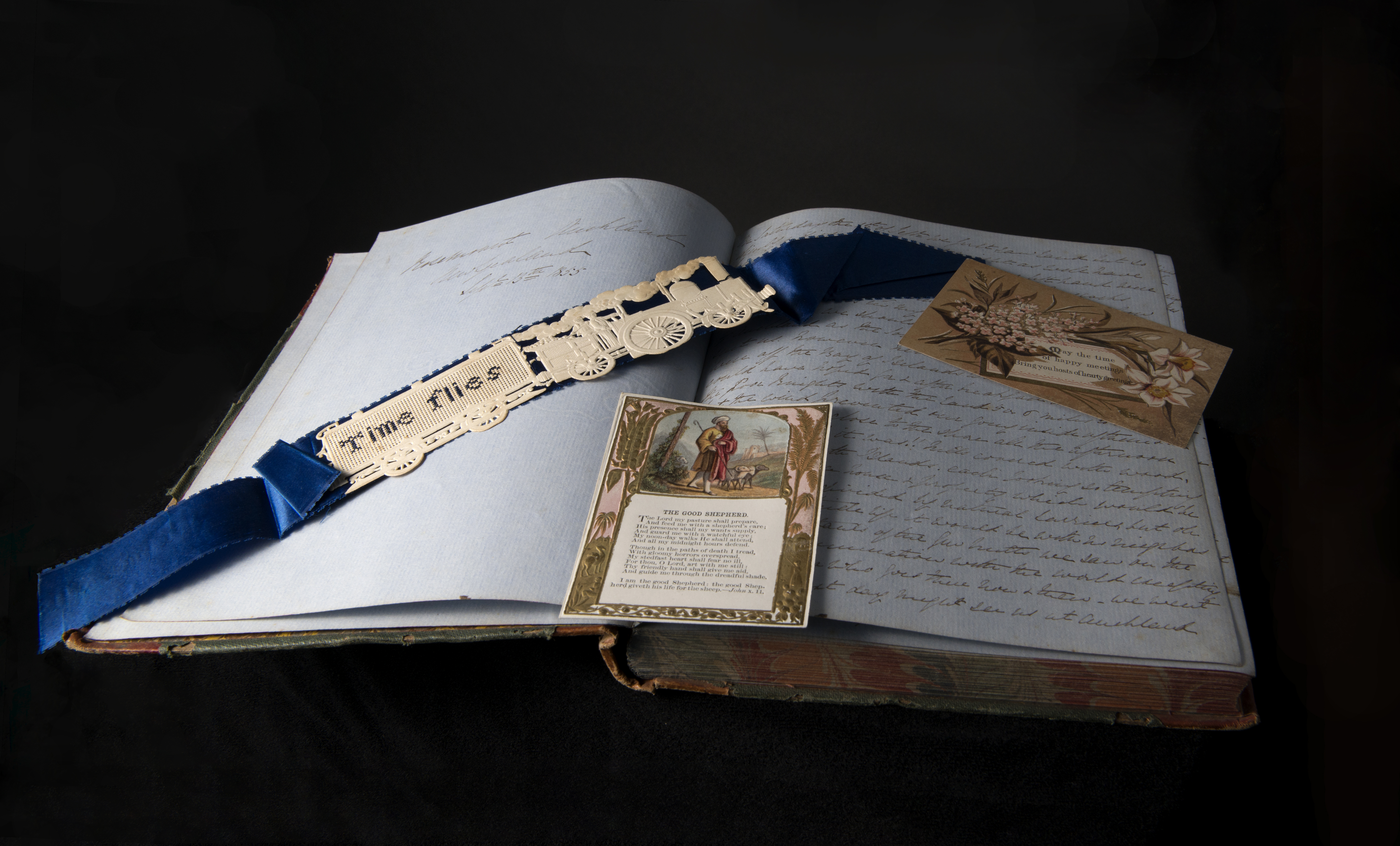 The image is a page from one of the diaries of Harriet Louisa Browne. Harriet was the wife of Thomas Gore-Browne a British colonial administrator, who was Governor of New Zealand from 1855-1861. Archives New Zealand holds some of the journals and diaries kept by Harriet and also Thomas Gore-Browne, which hold some enclosed papers and photographs of their time in New Zealand and other overseas posts. This particular diary is from 1855 and the page opened is dated 13 September 1855, Auckland, New Zealand. This is also around the time that Harriet and Thomas Gore-Browne first arrived in New Zealand. On this particular page Harriet talks about a visit to the Poor Knights and Bay of Islands. Within the diary’s pages are found mementos, cards and embroidery samples collected by Harriet. The diaries give insight into the day to day experiences and happenings in colonial New Zealand in the 19th Century. Archives New Zealand Reference: ADCZ 17007 W5601/1